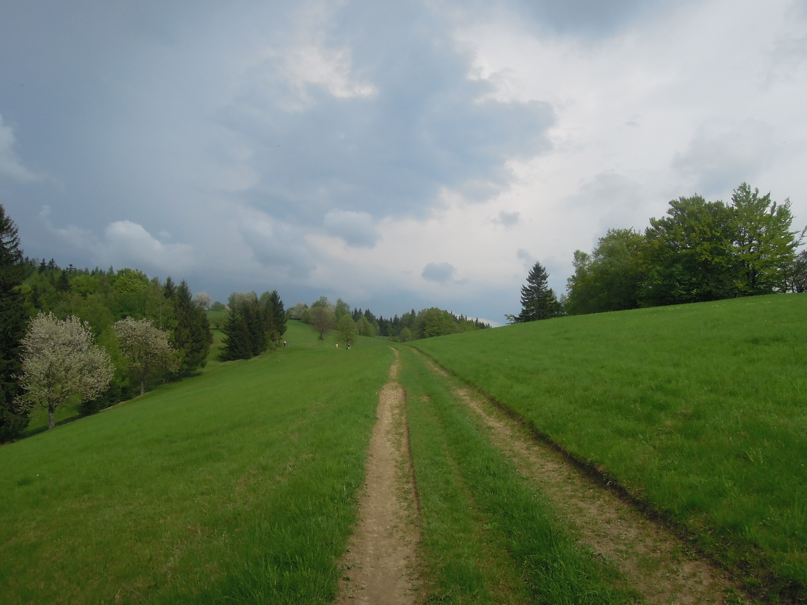 Galovské lúky nature reserve in Huslenky, Vsetín District, Zlín Region, Czech Republic